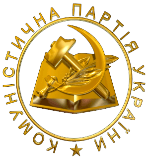 Communist Party of Ukraine logo